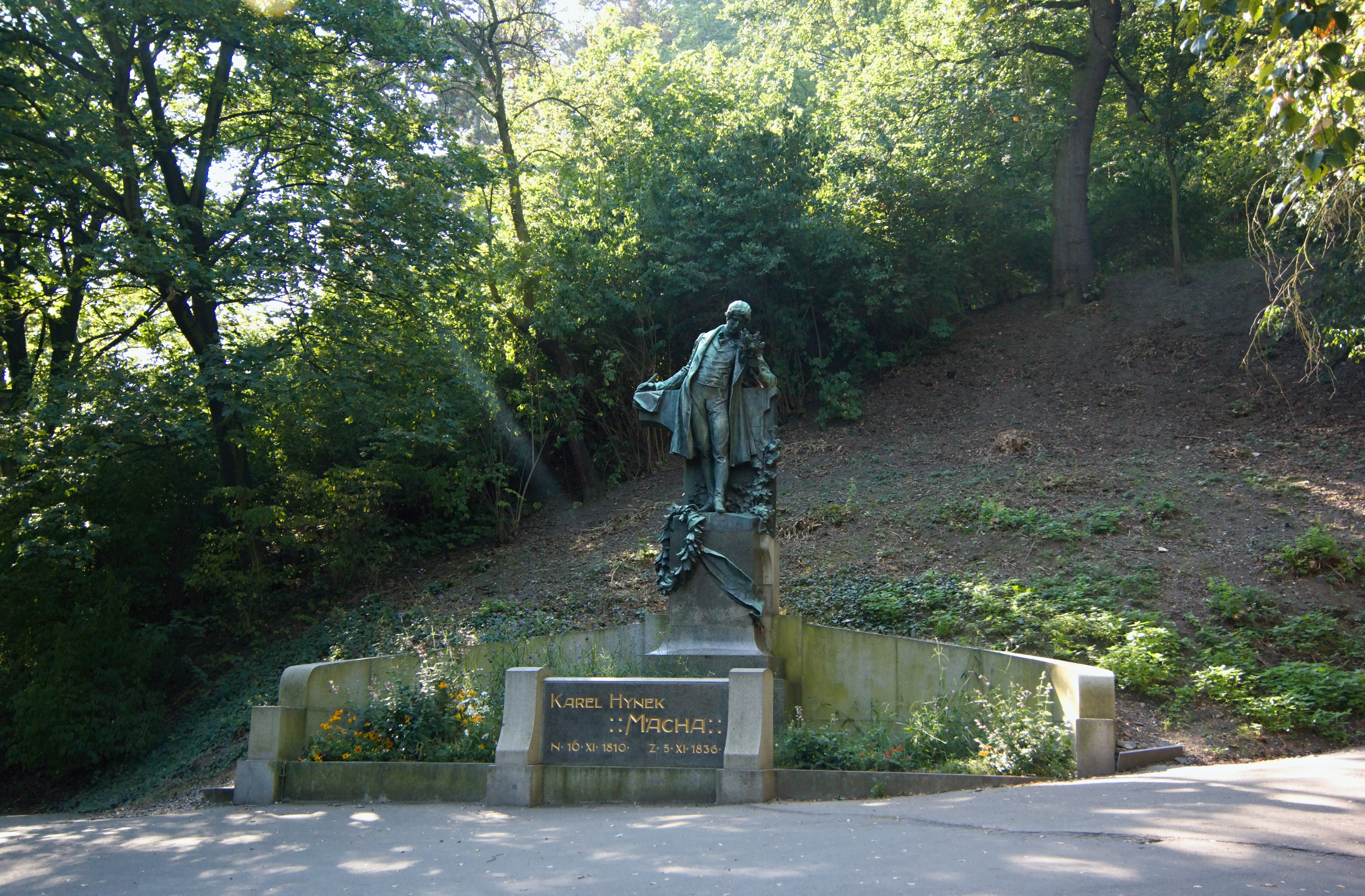 Statue of Karel Hynek Mácha in Petřín Park, Prague